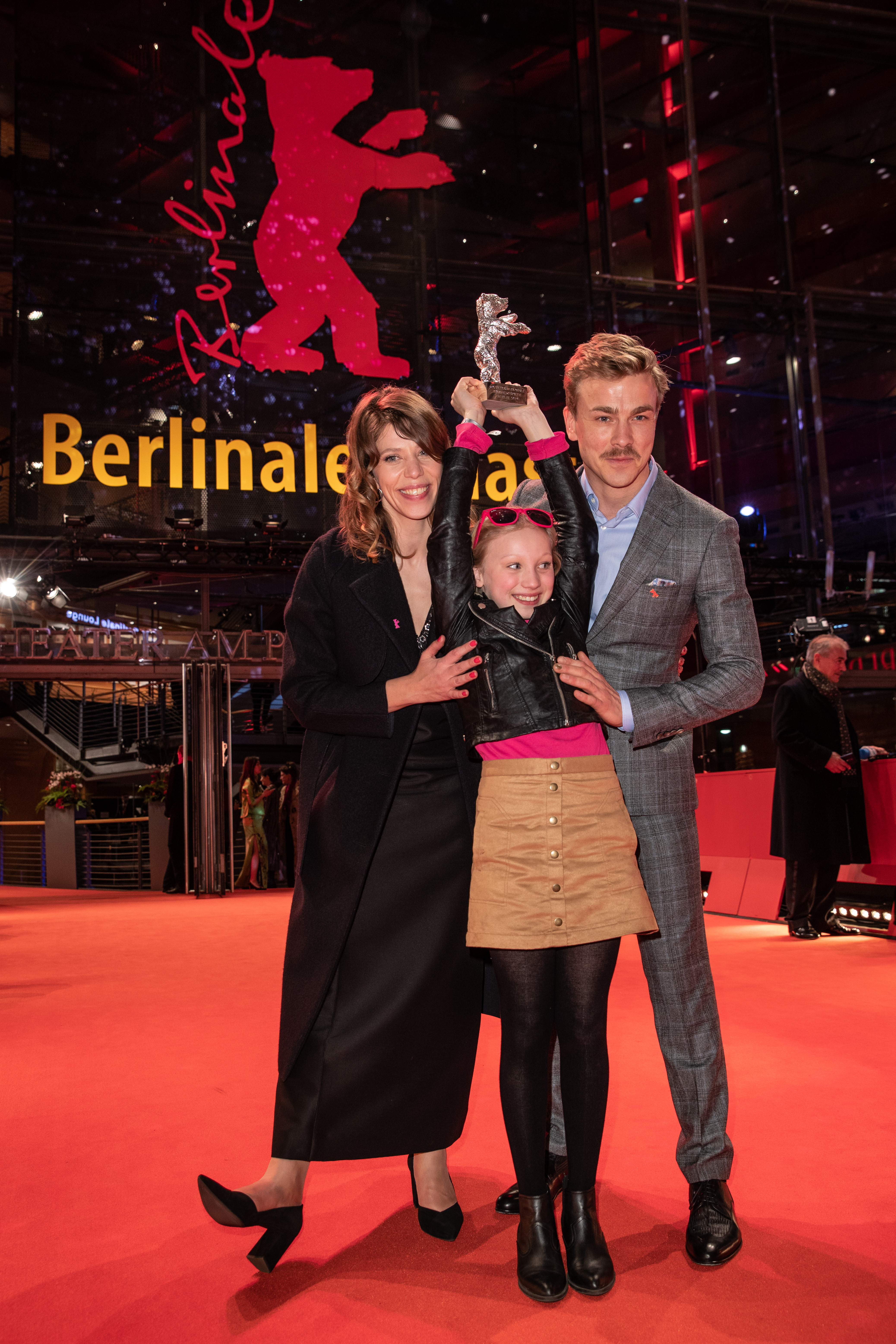 Director and actors of the film "Systemsprenger" on the red carpet of the Berlinale closing gala 2019.